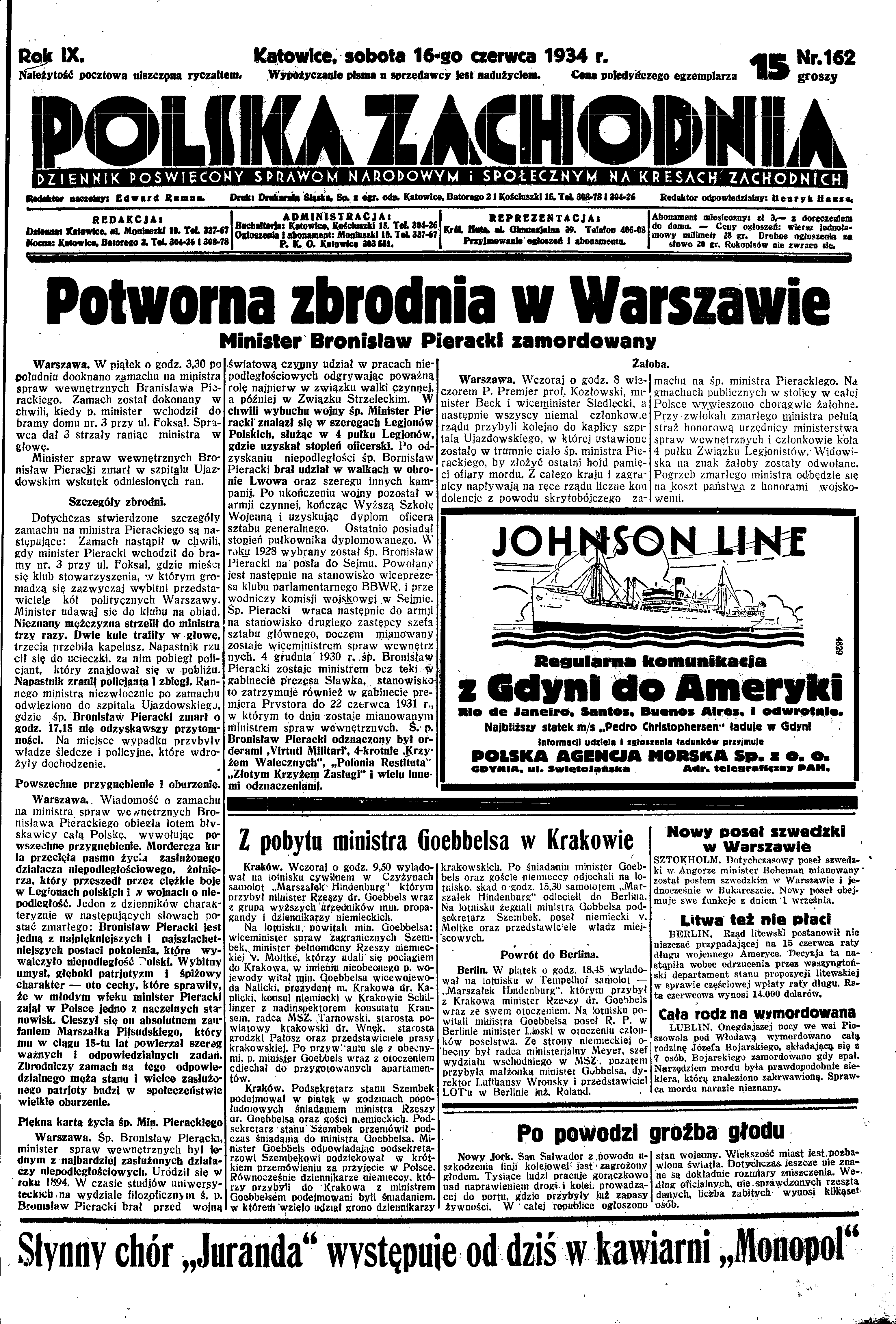 "Polska Zachodnia"'s frontpage with an information on assasination of Polish minister Bronisław Pieracki.